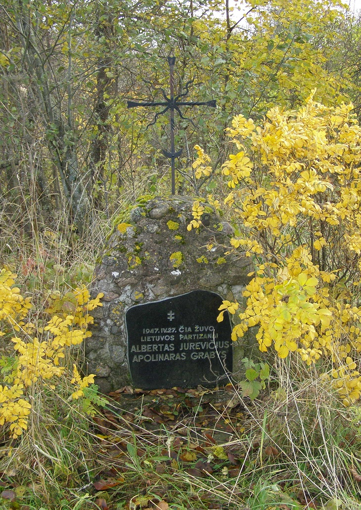 Žiogeliai, Kretinga district, LithuaniaLietuvių: Paminklas partizanams, Žiogelių k., Kretingos rajonas, Lietuva